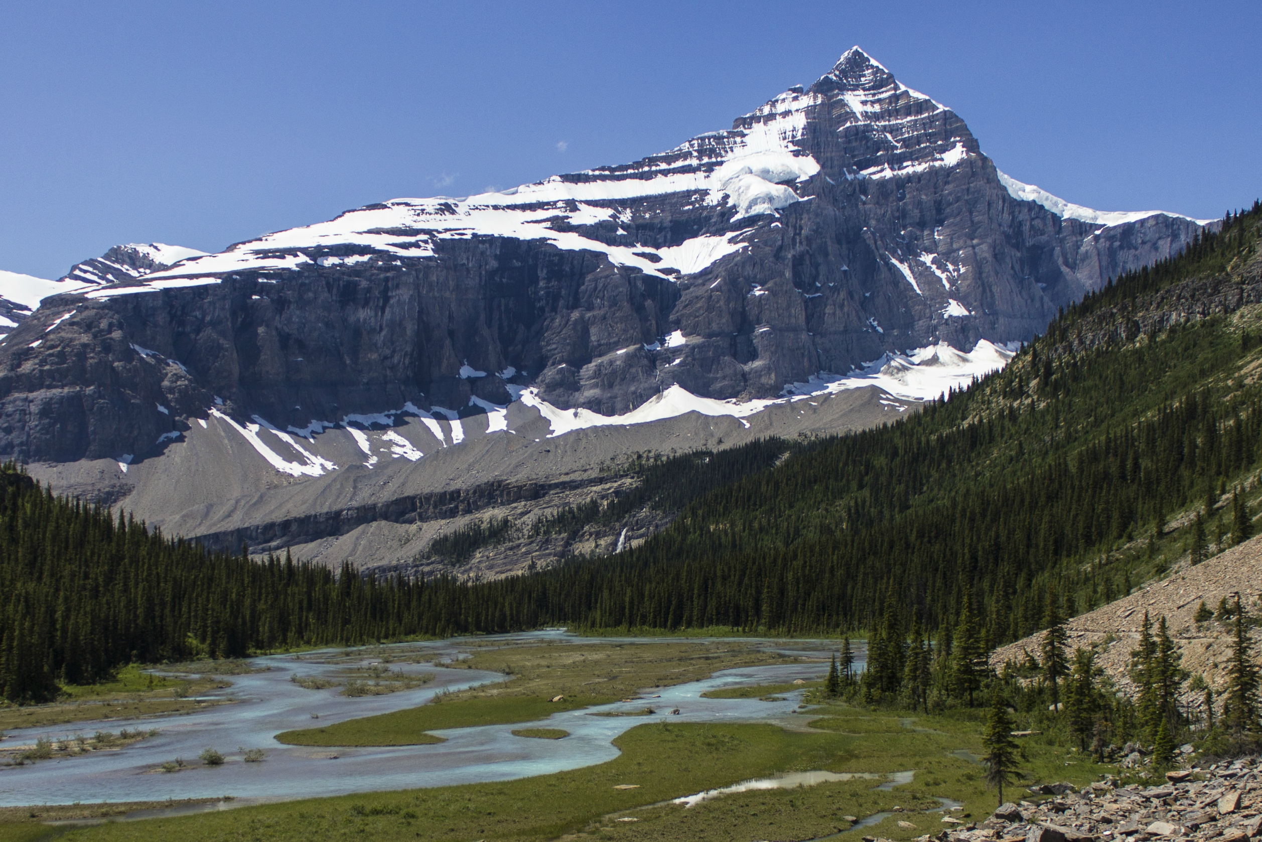 Whitehorn Mountain in Rainbow Range, Canada